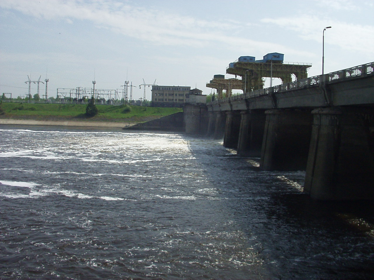 Ivankovo hydro power plant near Dubna, Moscow Oblast